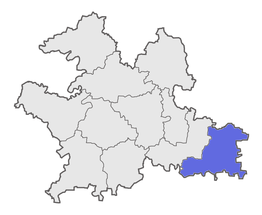 Locator map of Akkalkot tehsil in Solapur district of Indian state of Maharashtra.